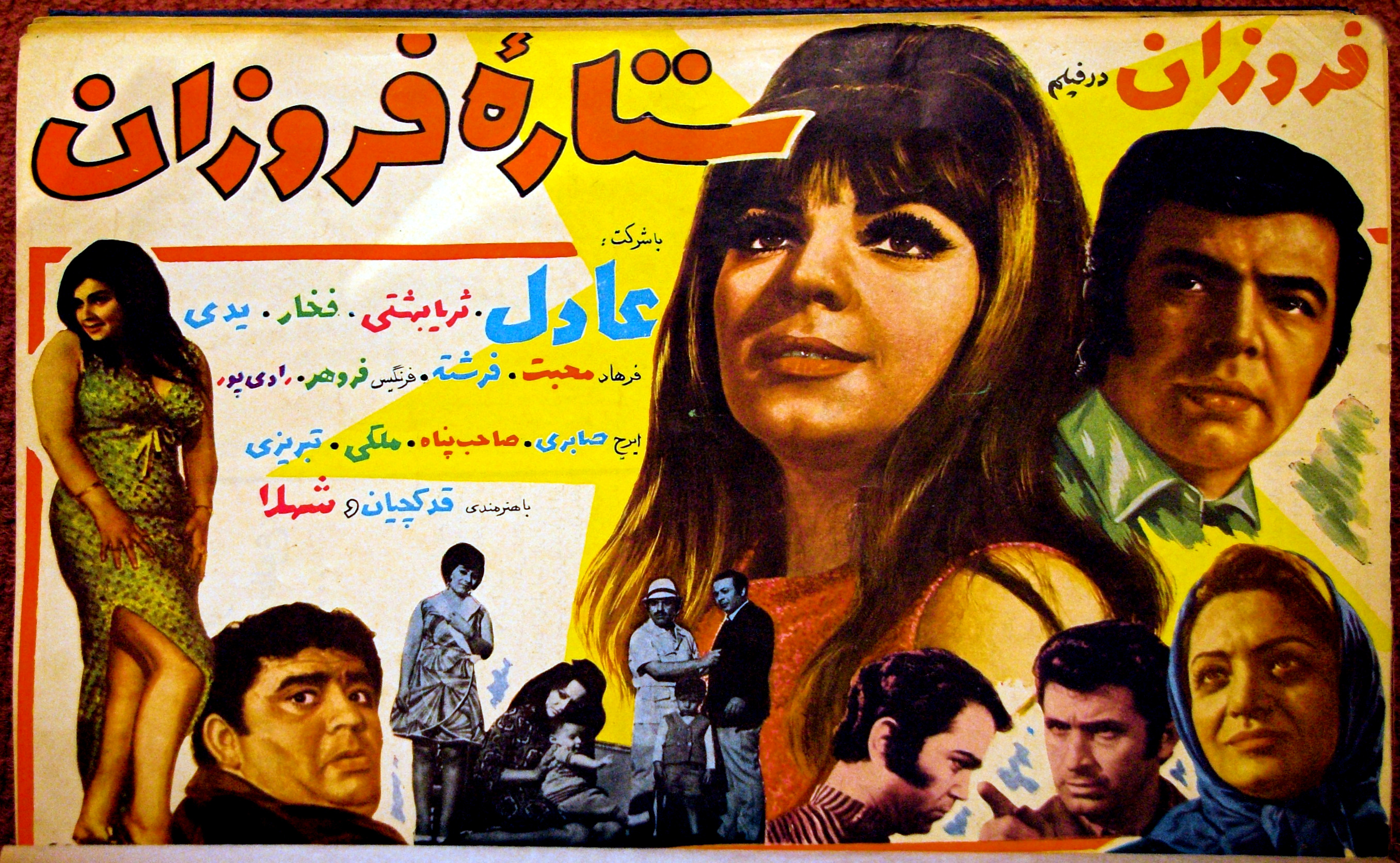 An iranian film magazine from the 1970's, depicting Forouzan and others